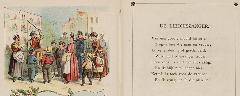 Children's book with rhymes and illustrations: "De kijkkast en andere vermaken" (12 rhymes with pictures). Printed: Alkmaar, 1892. Page 5-6: the street singer with illustration cloth. Online source: Het Geheugen van Nederland. Source: KB Den Haag.